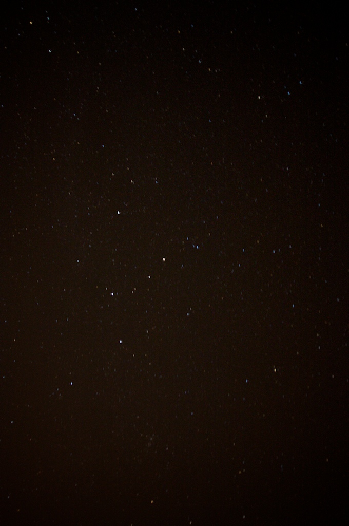 photograph of the constellation Cassiopeia taken from the north end of Wrightsville Beach, NC.